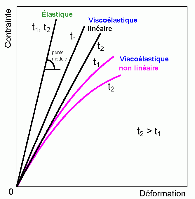 Stress-strain behaviour of elastic and viscoelastic materials at two values of elapsed time, t.